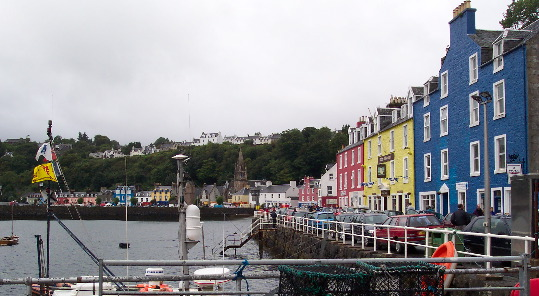 Tobermory, mull